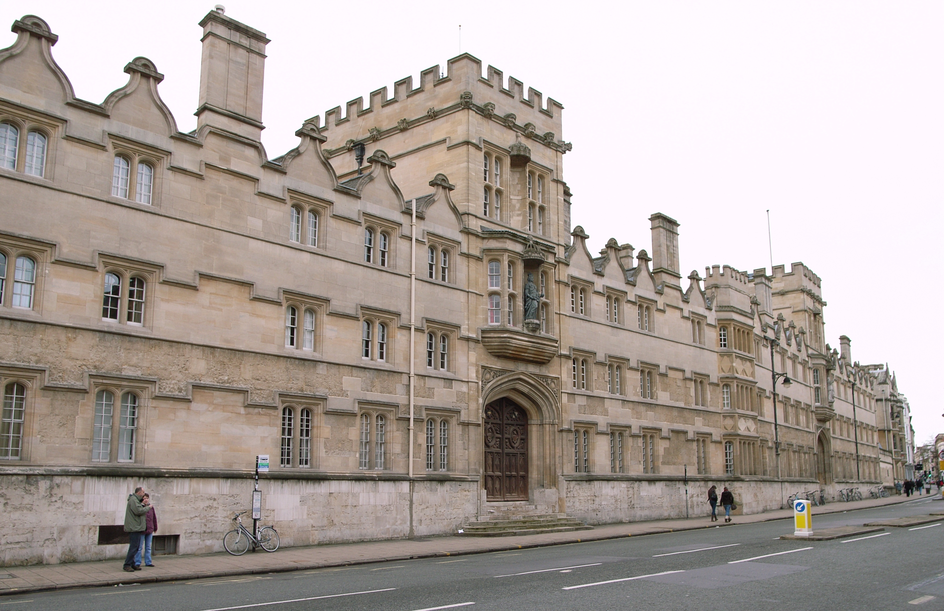 University College, Oxford (built 1634 onwards), seen from the High Street